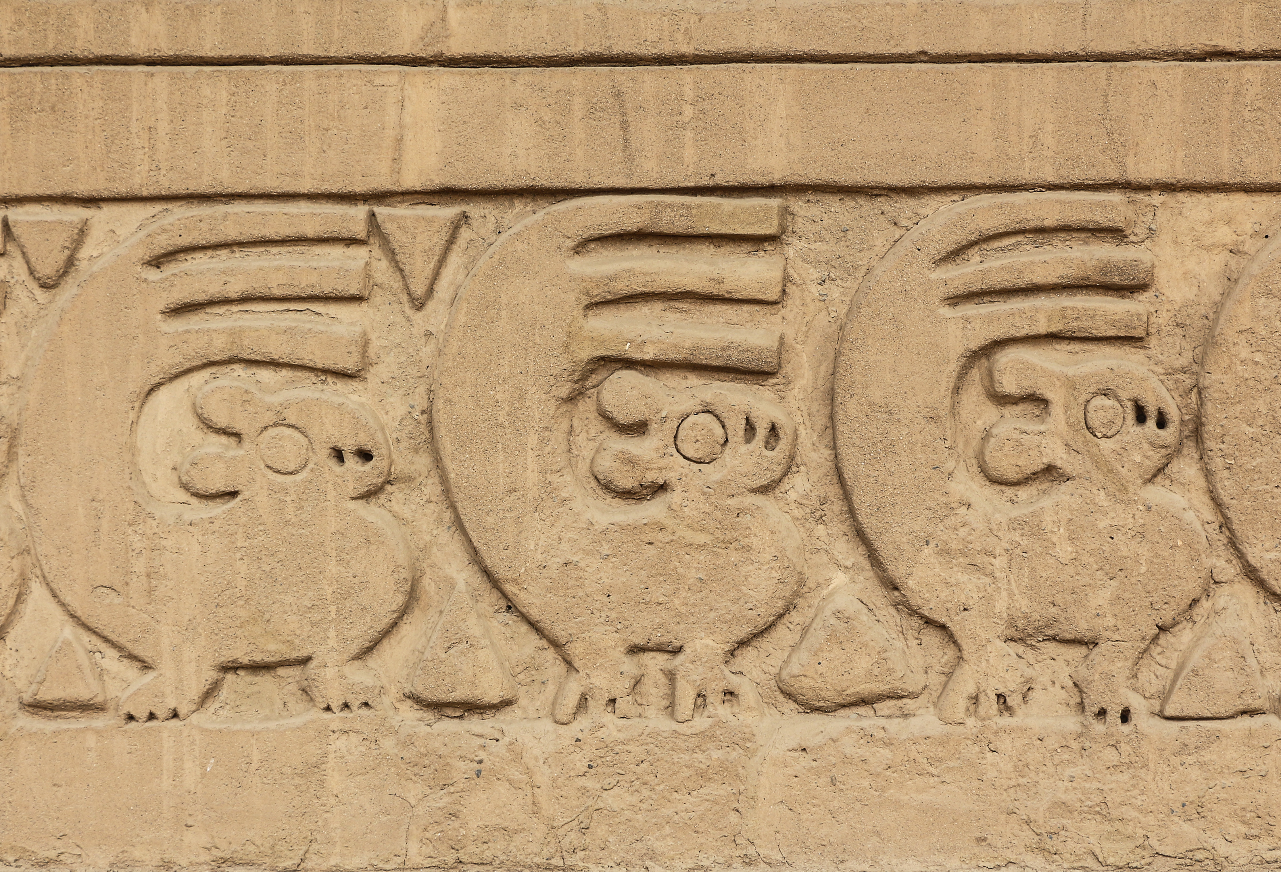 Reliefs of squirrel in the Tschudi Temple, Chan Chan, Peru